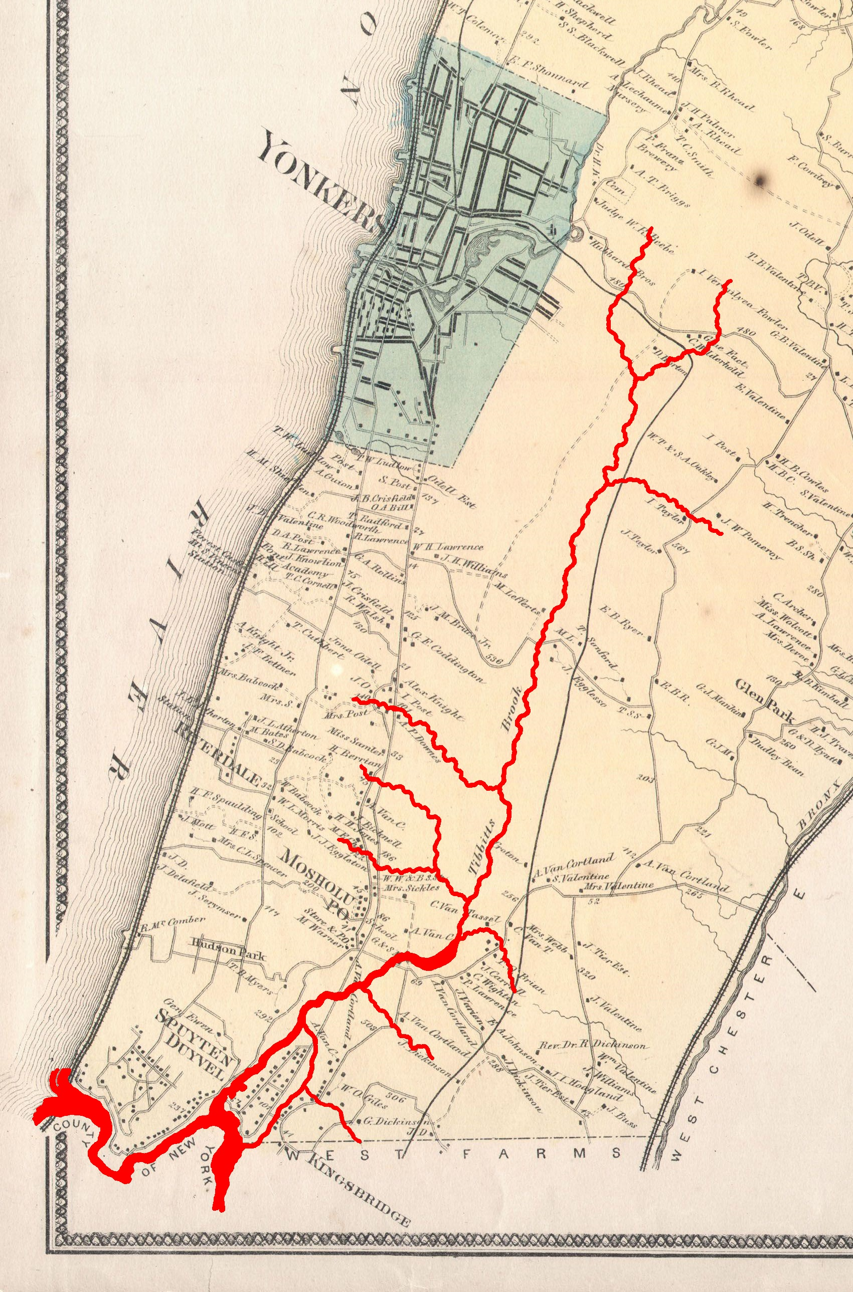 This is the scarce Yonkers sheet from Beers’ 1867 Atlas of Westchester County, New York, showing modern-day Yonkers and Western Bronx. Highlighted in red are the course and various tributaries of Tibbetts Brook, and Spuyten Duyvil Creek which once separated the Bronx and Manhattan island.